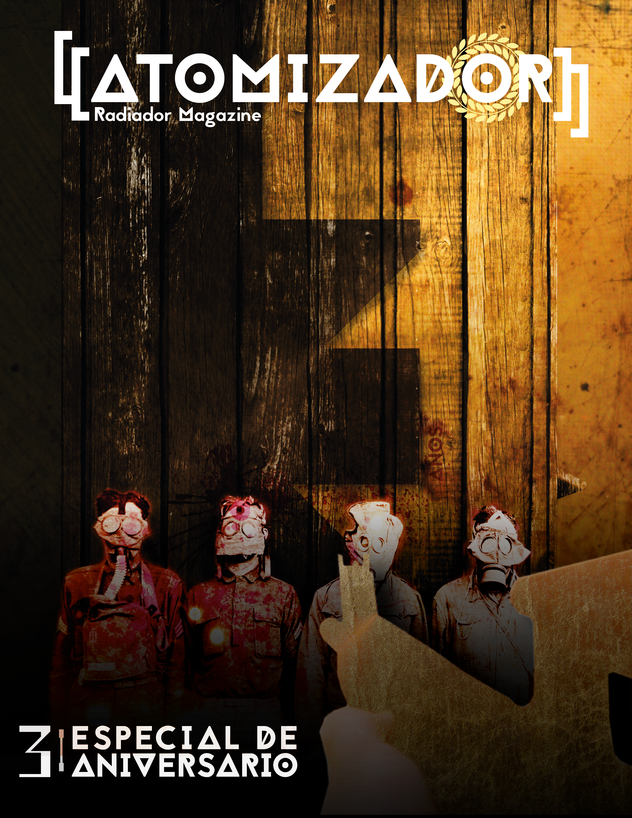 Cover of the 3rd anniversary of Radiador Magazine